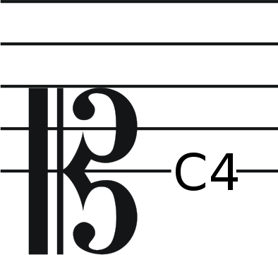 Soprano clef w/ ref note